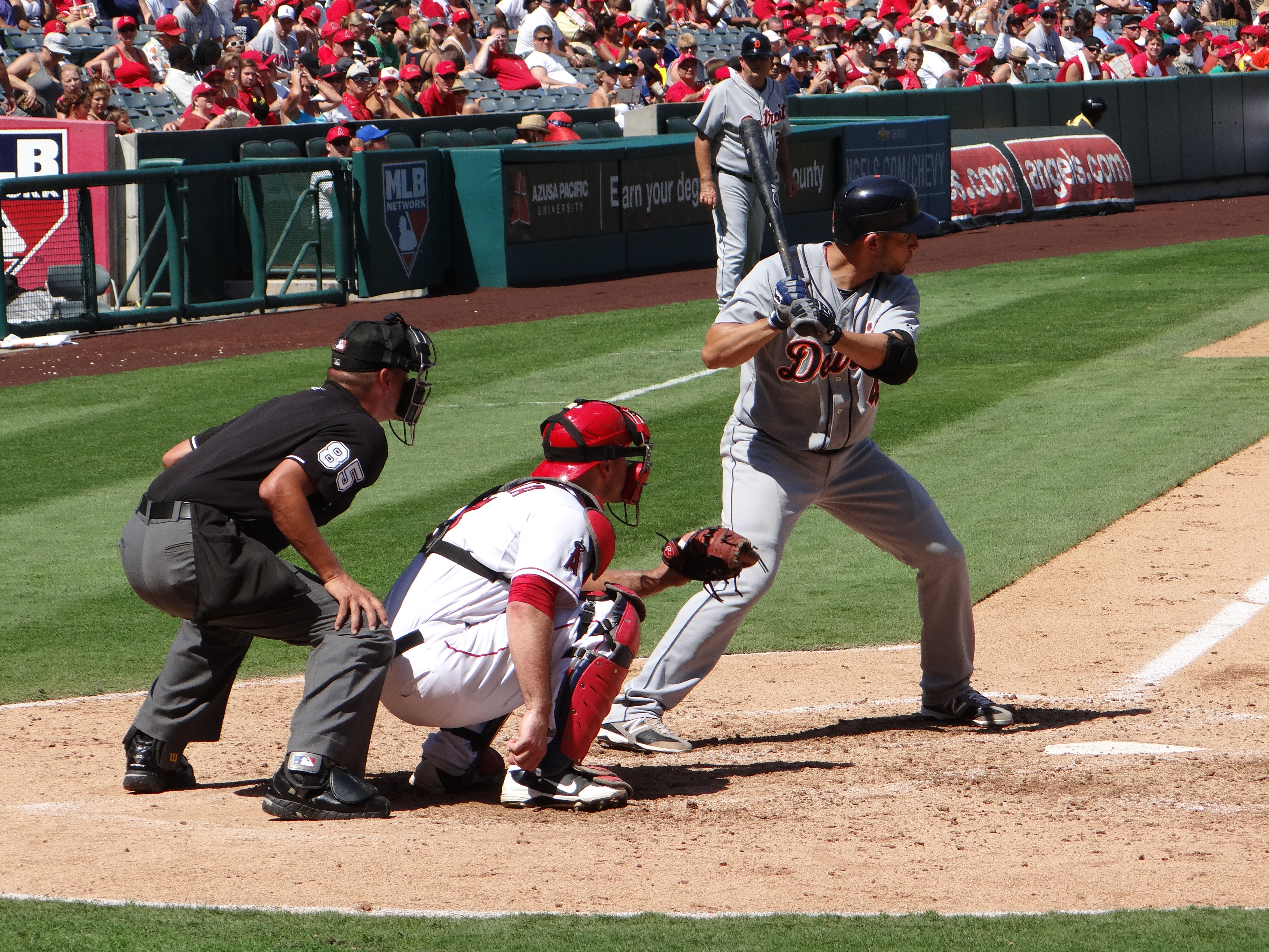 Omar Infante batting for the Detroit Tigers against the Los Angeles Angels (2012-09-09)